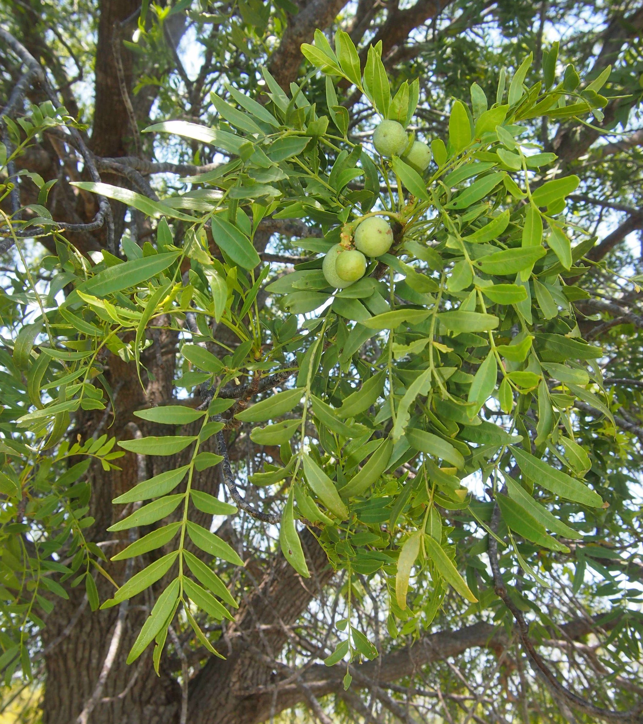 Owenia acidula foliage and fruit